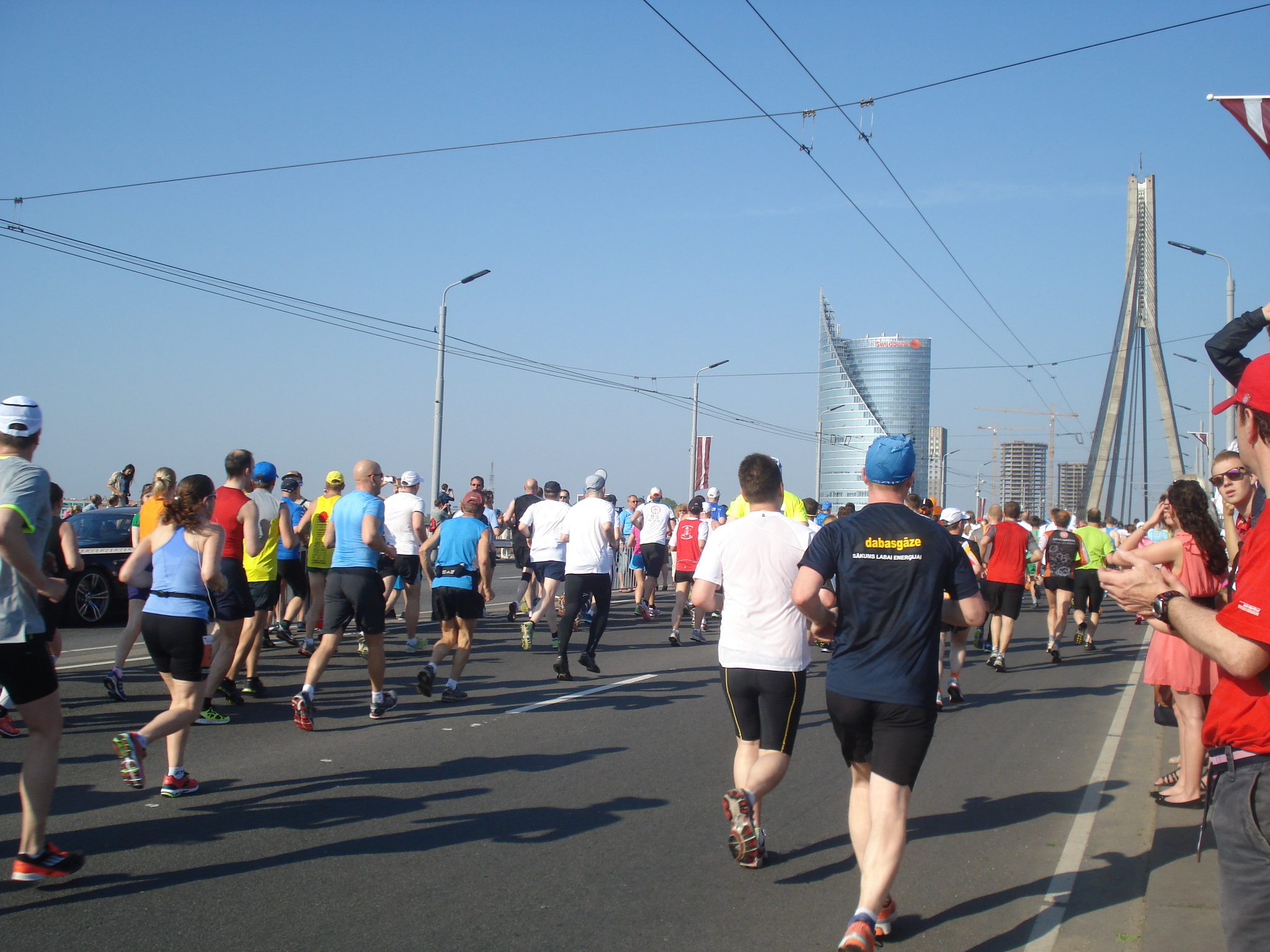 The Riga Marathon 2013 on the Vanšu Bridge (Riga, Latvia)